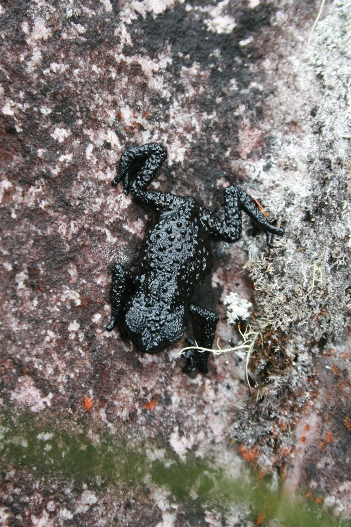 Oreophrynella nigra, mount Roraima, Venezuela